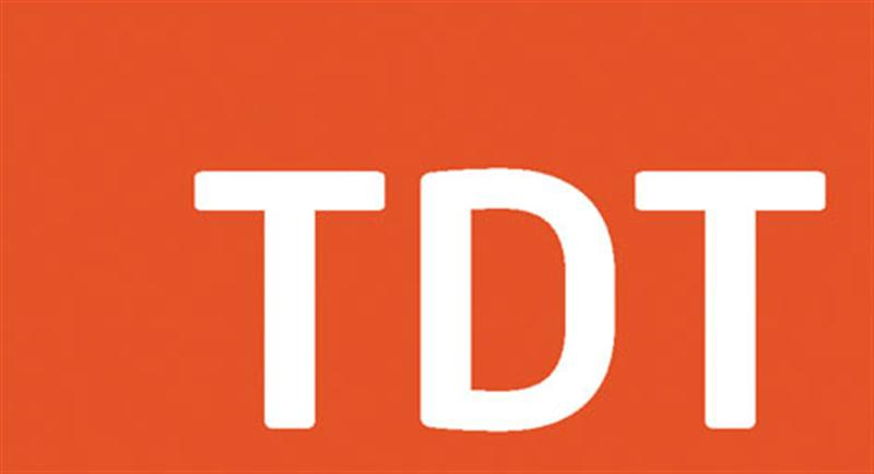 TDT wordmark, logo removed. Portuguese TDT